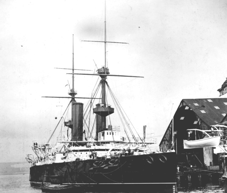 British battleship HMS Repulse (1892)